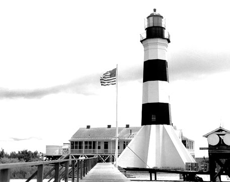 Sabine Pass Lighthouse, Cameron Parish, Louisiana. Date is not specified by Coast Guard website, but the facility was deactivated in 1952 and keepers quarters pictured burned in the 1976. The black bands were added in 1932. Therefore, the picture is probably dated between 1932 and 1952. (Ref for dates:Sabine Pass Lighthouse history page